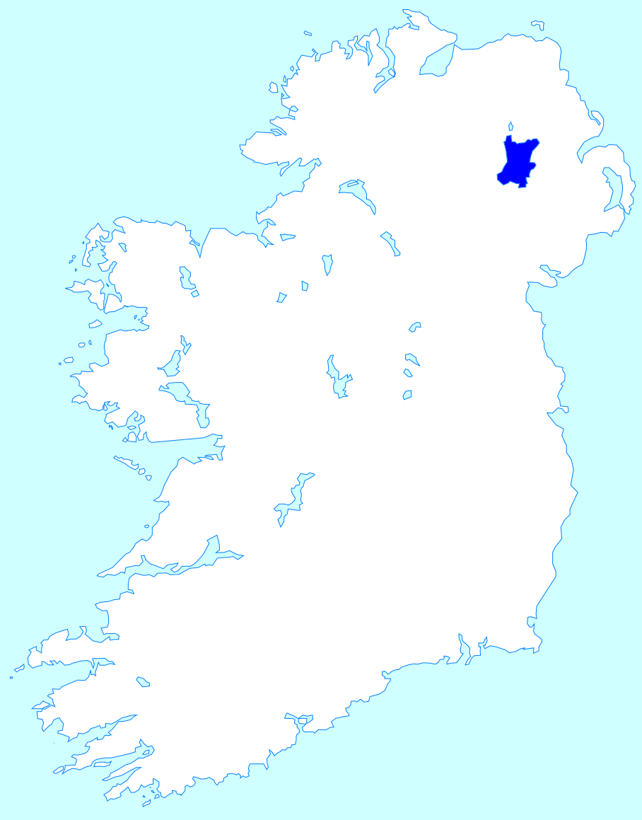 A map highlighting the location of Lough Neagh within Ireland.